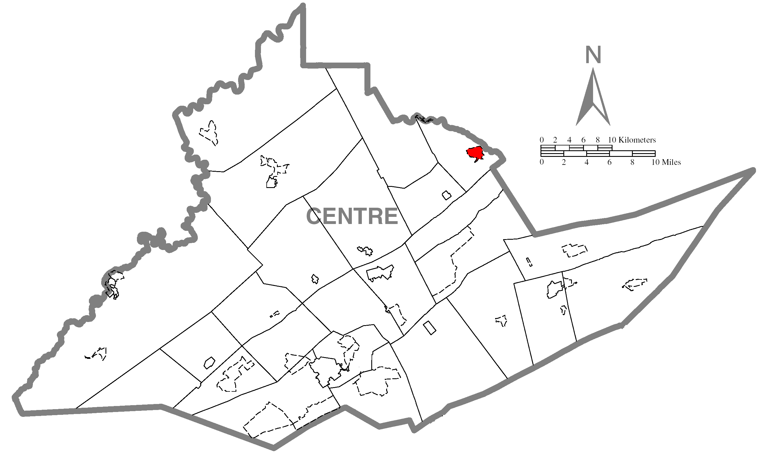 A map of Centre County showing Blanchard, Pennsylvania (alternate) highlighted on the map.